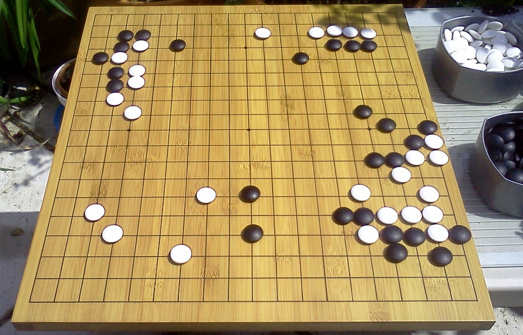 Go demo